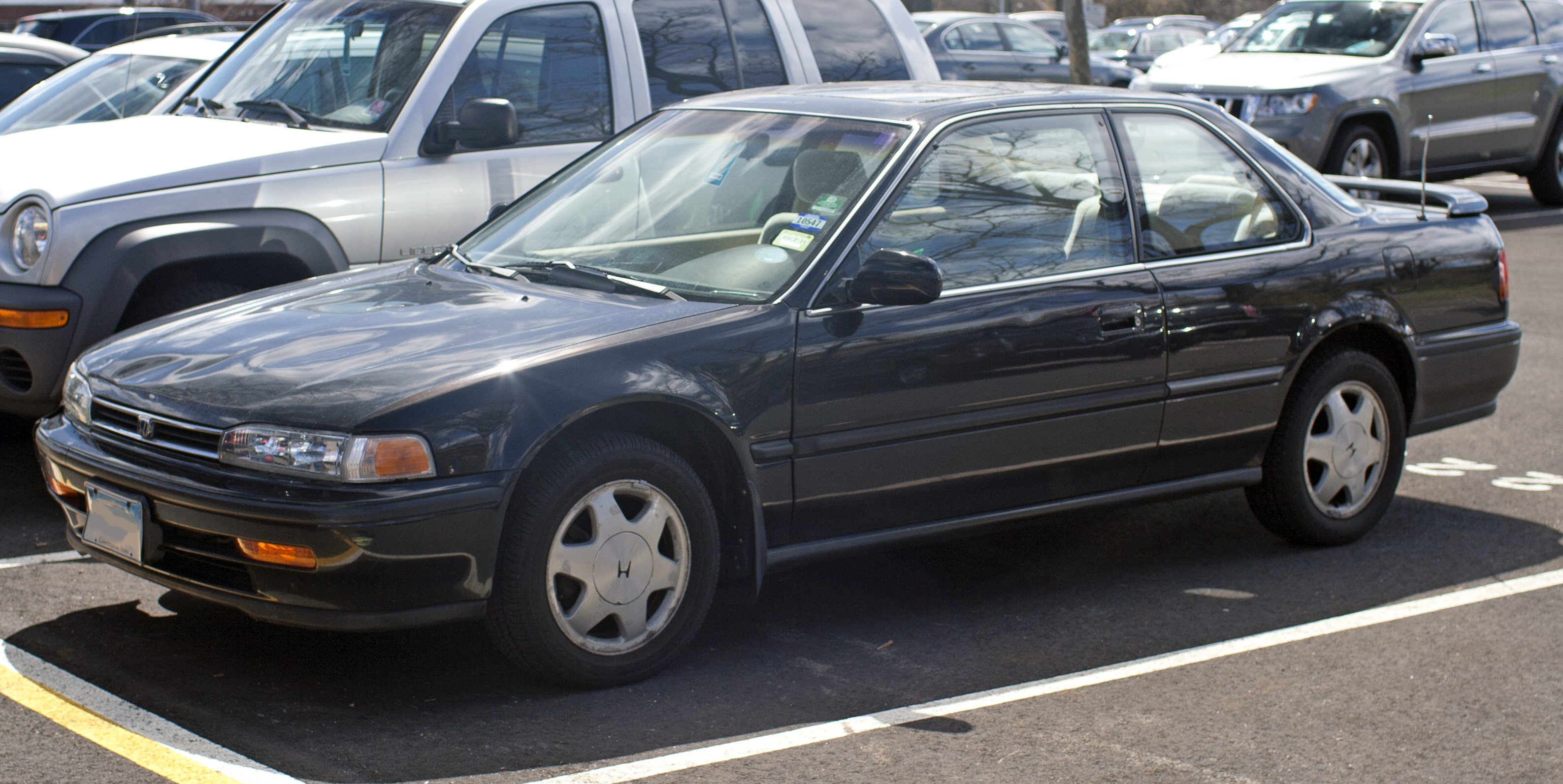 1993 Honda Accord EX Coupé. 2.2 litre, 140hp, slushbox.